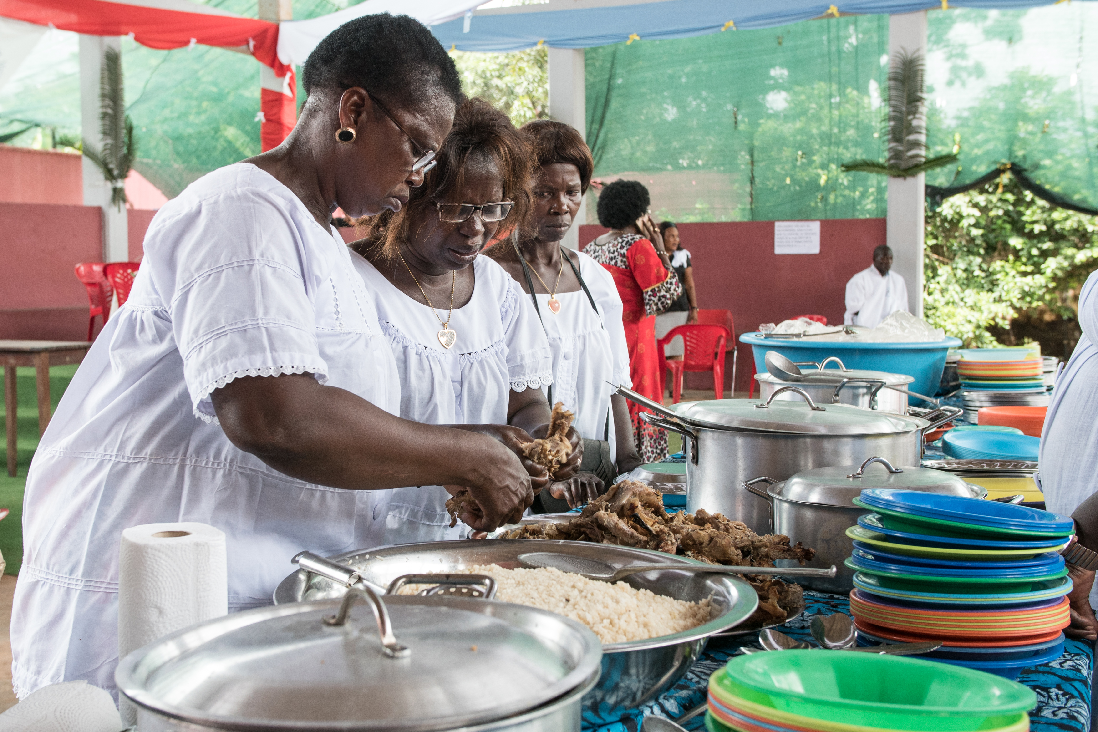 These three beautiful ladies have cooked for an event and are preparing the dishes This is an image of "African people at work" from Guinea-Bissau